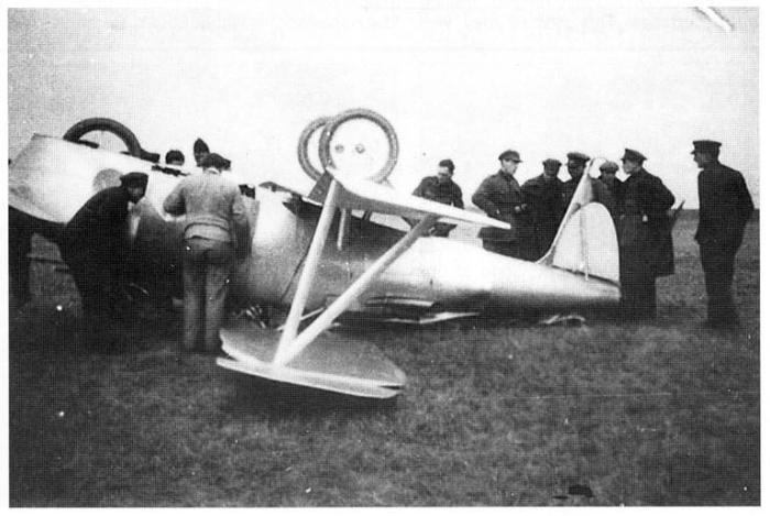 Photo of De Bruyère C 1 crash view 2.png